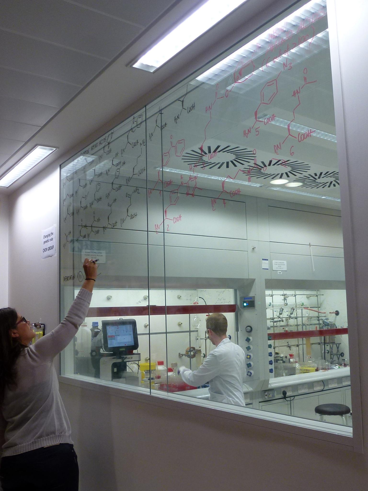 A laboratory and corridor at the new building of the Laboratory of Molecular Biology in the Cambridge Biomedical Campus on 22 June 2013.